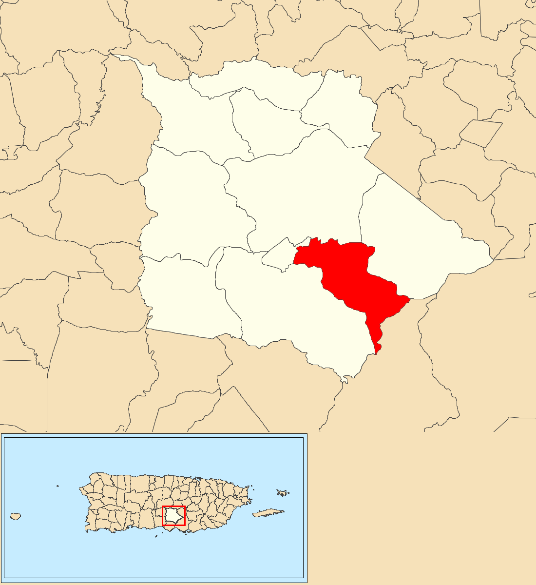 Palmarejo, Coamo, Puerto Rico, locator map